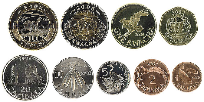 Coins